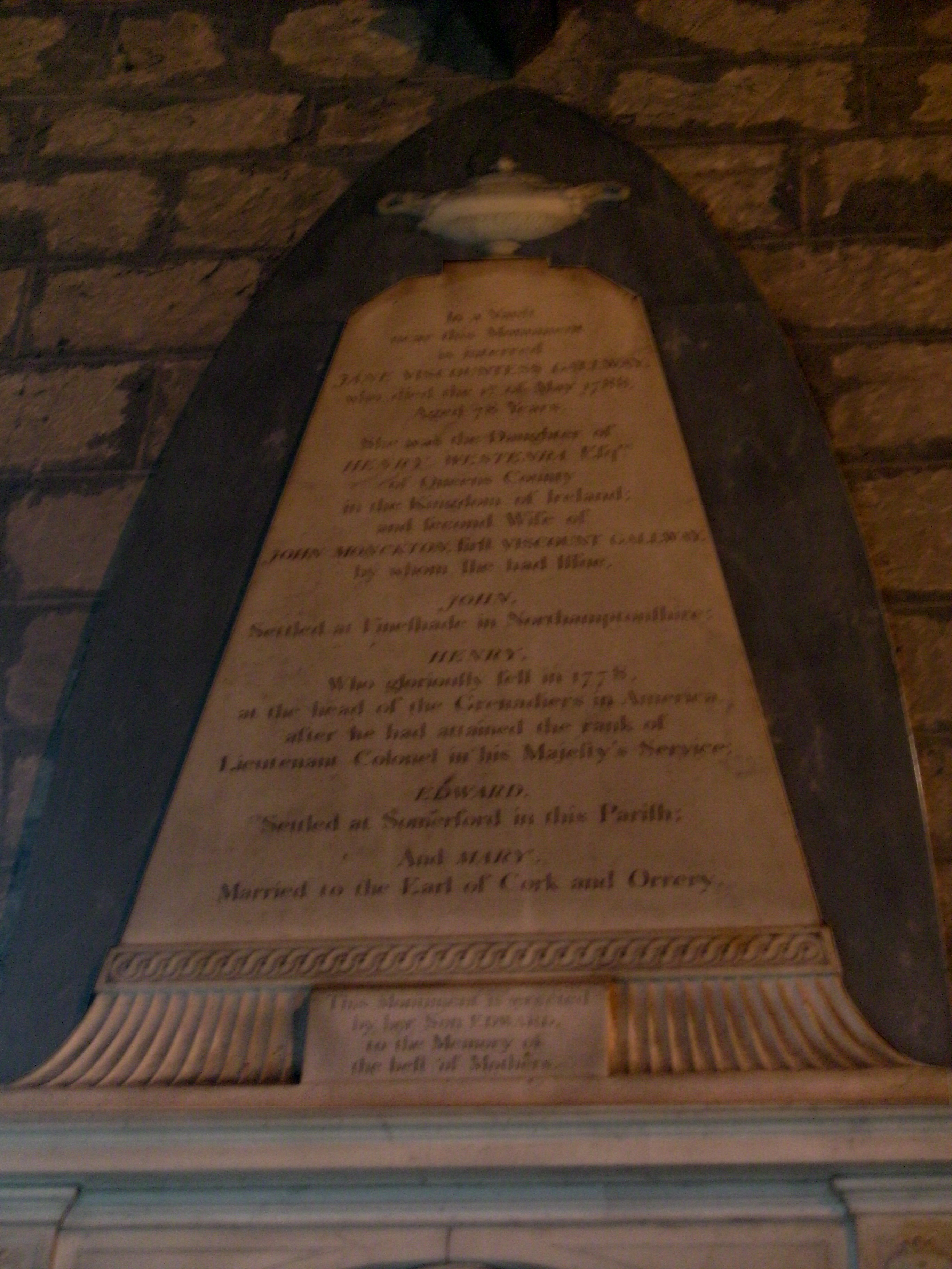 Memorial to Jane Westenra, 2nd wife of John Monckton, 1st Viscount Galway, from her children, Brewood parish church .